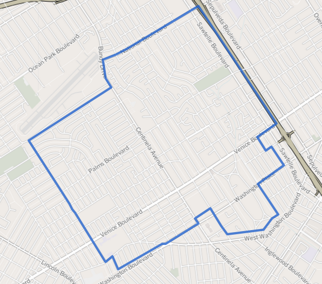 Map of Mar Vista — a Westside neighborhood of Los Angeles, California.